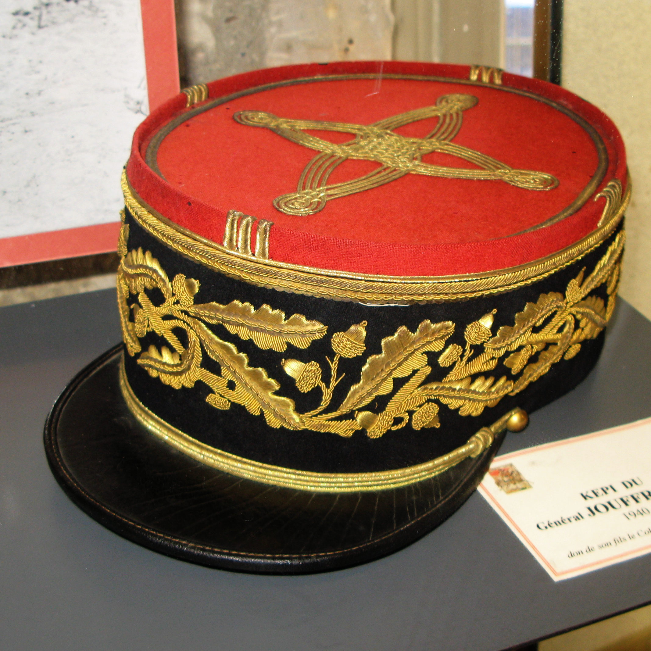 Kepi of a generalMusée des Spahis, Senlis